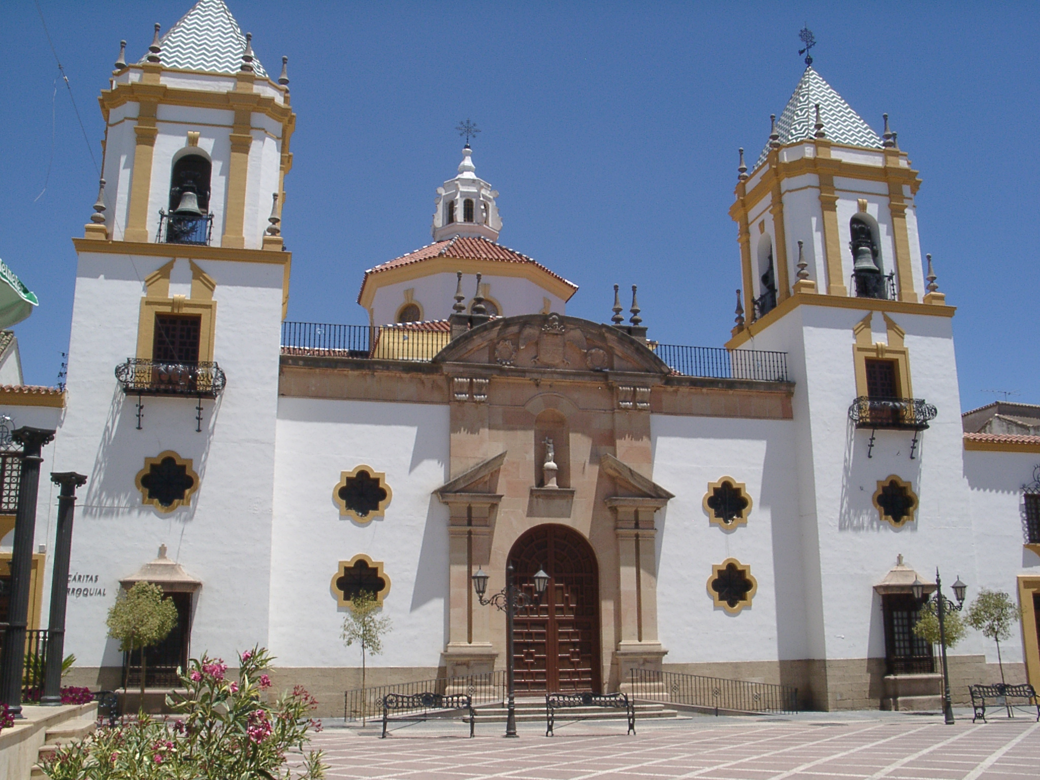 Church of Socorro, in Ronda